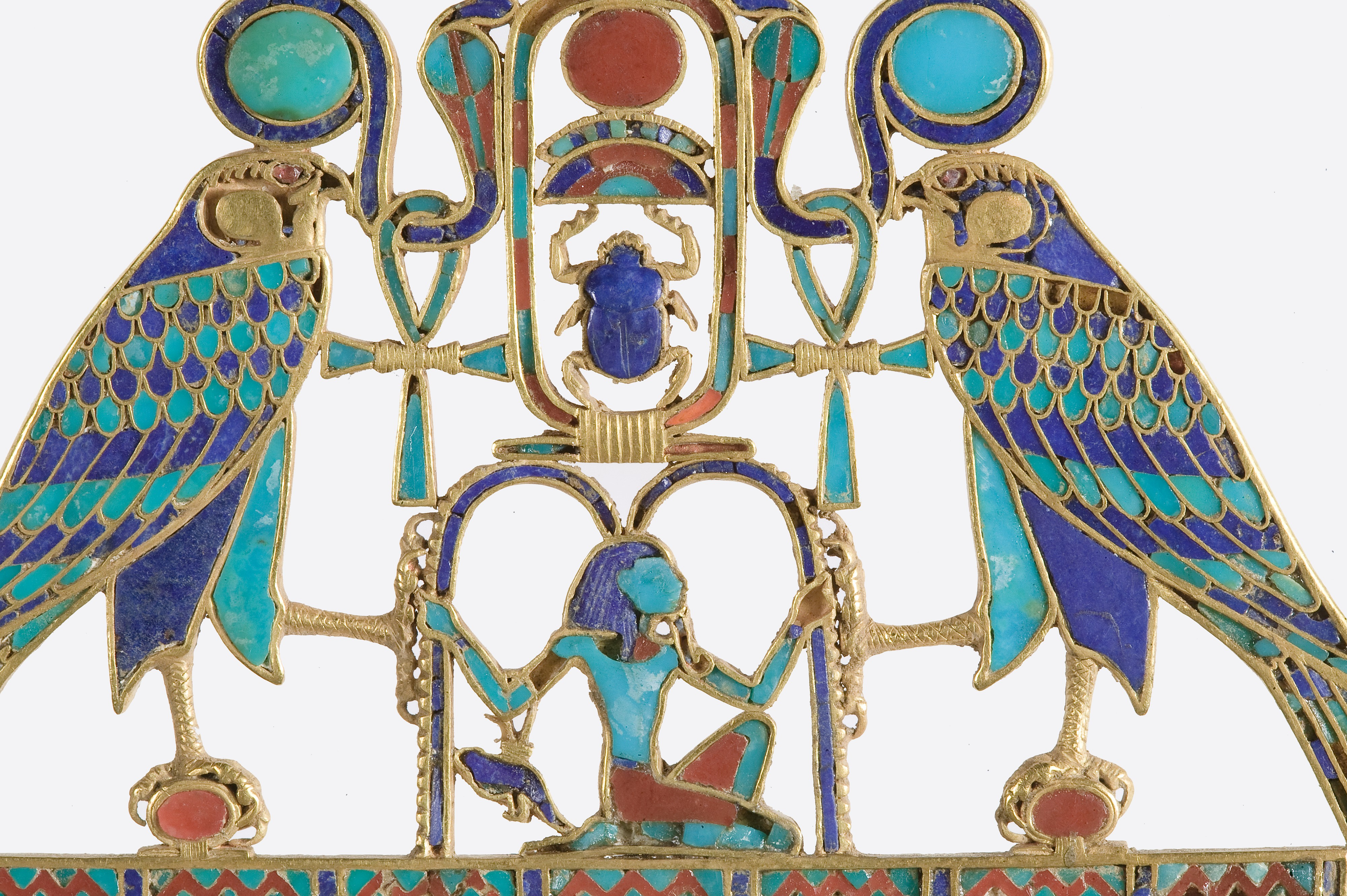 Necklace, pectoral, Sithathoryunet, Senwosret II